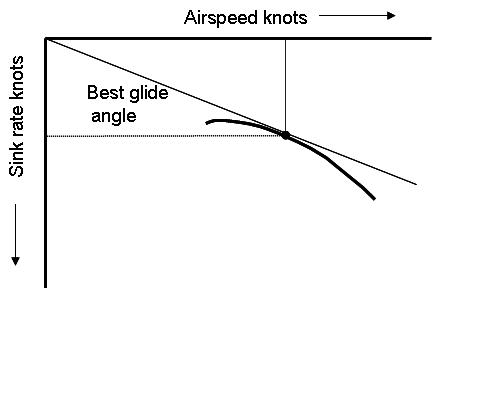 Optimal gliding speed for an aircraft